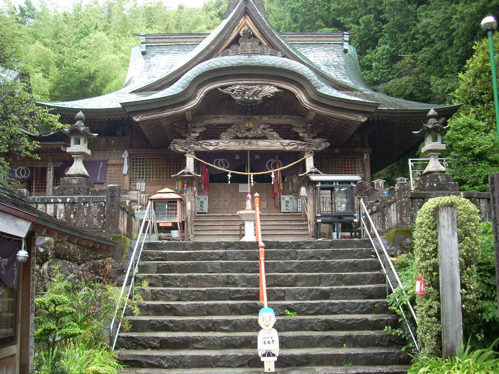 Main temple, Kiyotaki-ji